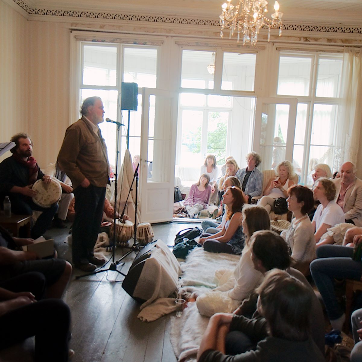 Coleman Barks reads at the Festival of Silence, Esvika, Asker, Norway, 25. June 2011Norsk bokmål: Coleman Barks leser på Stillhetsfestivalen, Esvika, Asker, Norway 2011-06-25